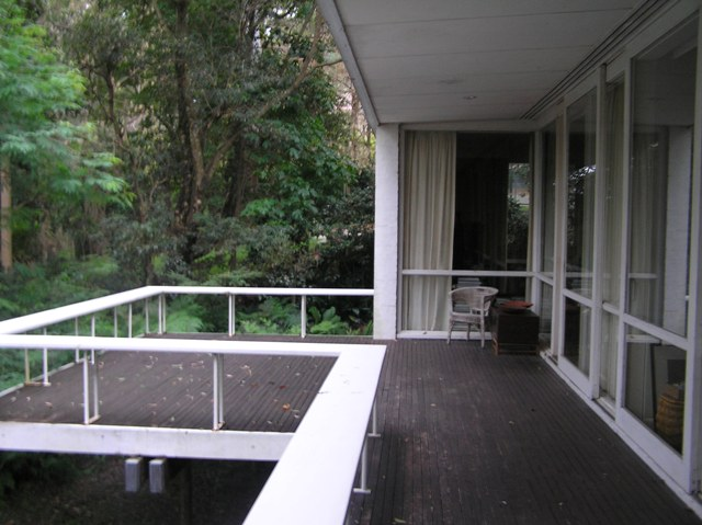 Simpson-Lee House I: Rear Deck showing detail of handrail seat.